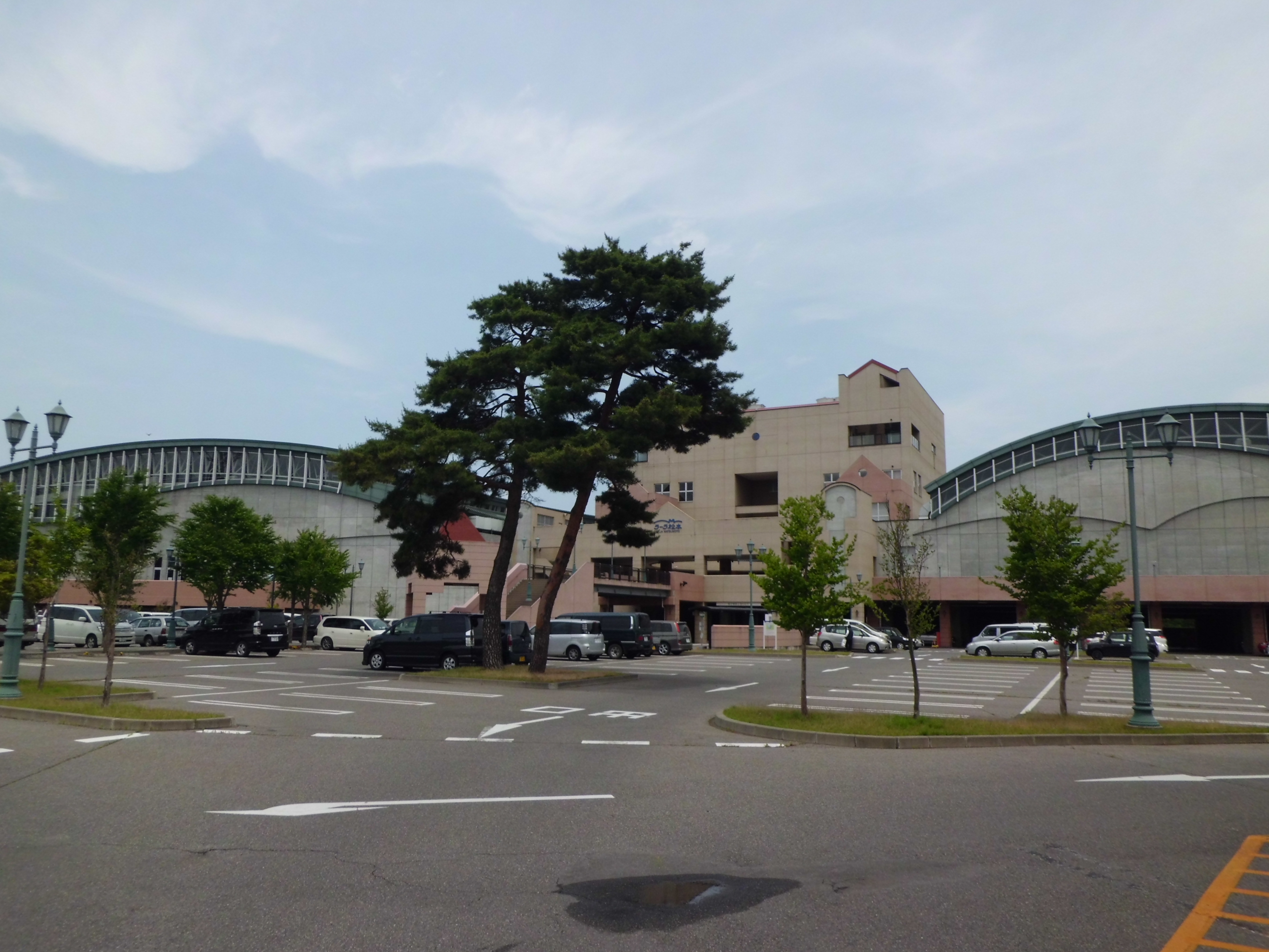 Lala Matsumoto pool in Matsumoto city, Nagano prefecture, Japan.